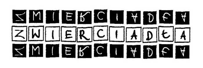 Logo of Lublin theatre meetings Zwierciadła